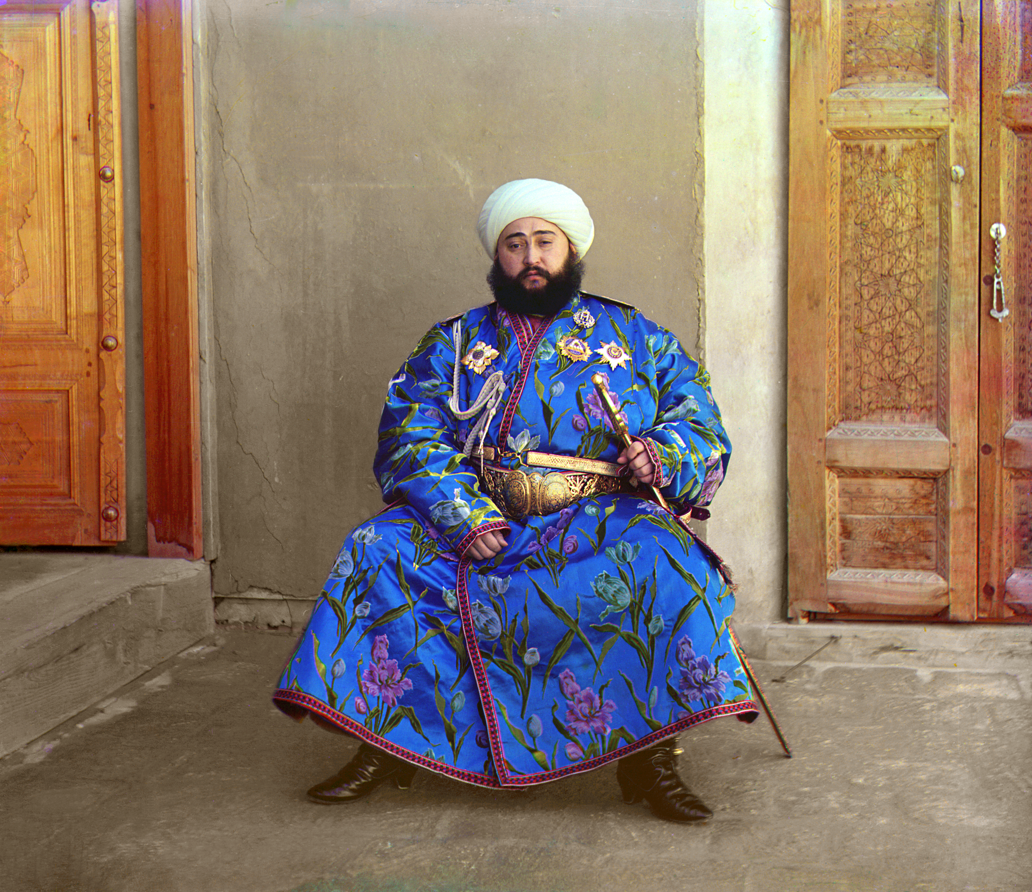 A picture of Alim Khan (1880-1944), Emir of Bukhara, taken in 1911. This is one of the earliest color photographs in existence and was originally taken by Sergei Mikhailovich Prokudin-Gorskii as part of his work to document the Russian Empire. It was taken using three black-and-white exposures, with red, green and blue filters respectively, long before color photographic printing existed. The three resulting images were projected using color filters to create a color projection. More recently, the Library of Congress has scanned Prokudin-Gorskii's work and contracted with other firms to produce high-resolution color images from the black and white scans.